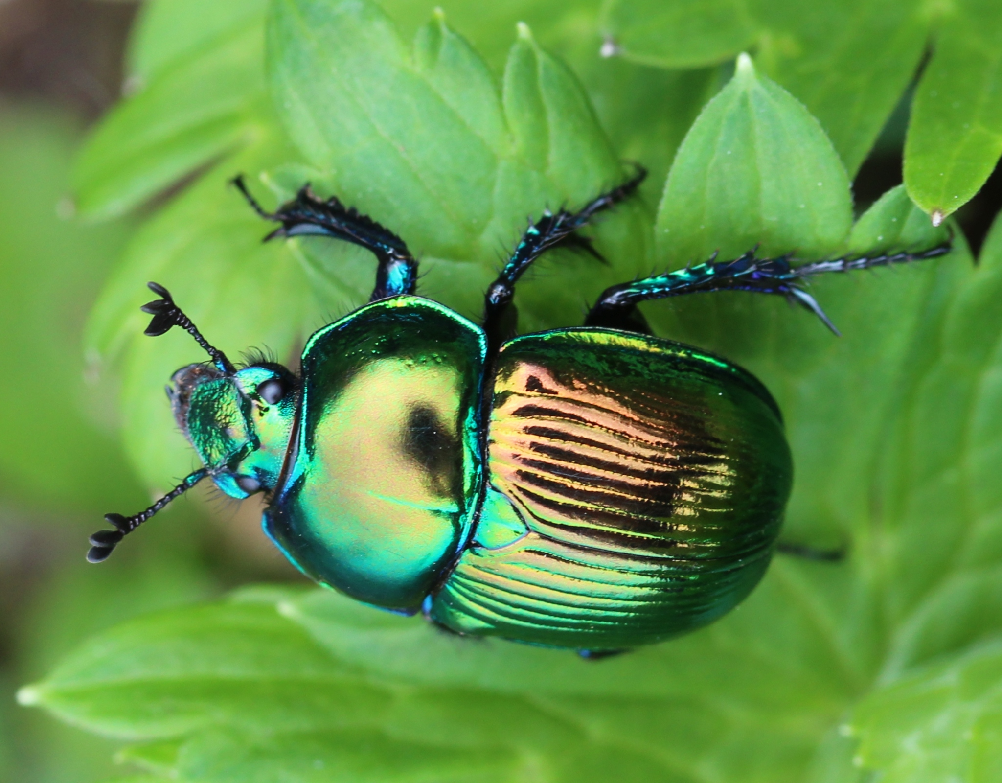 Geotrupes auratus auratus in Mount Ryozen of Suzuka Mountains, Japan.